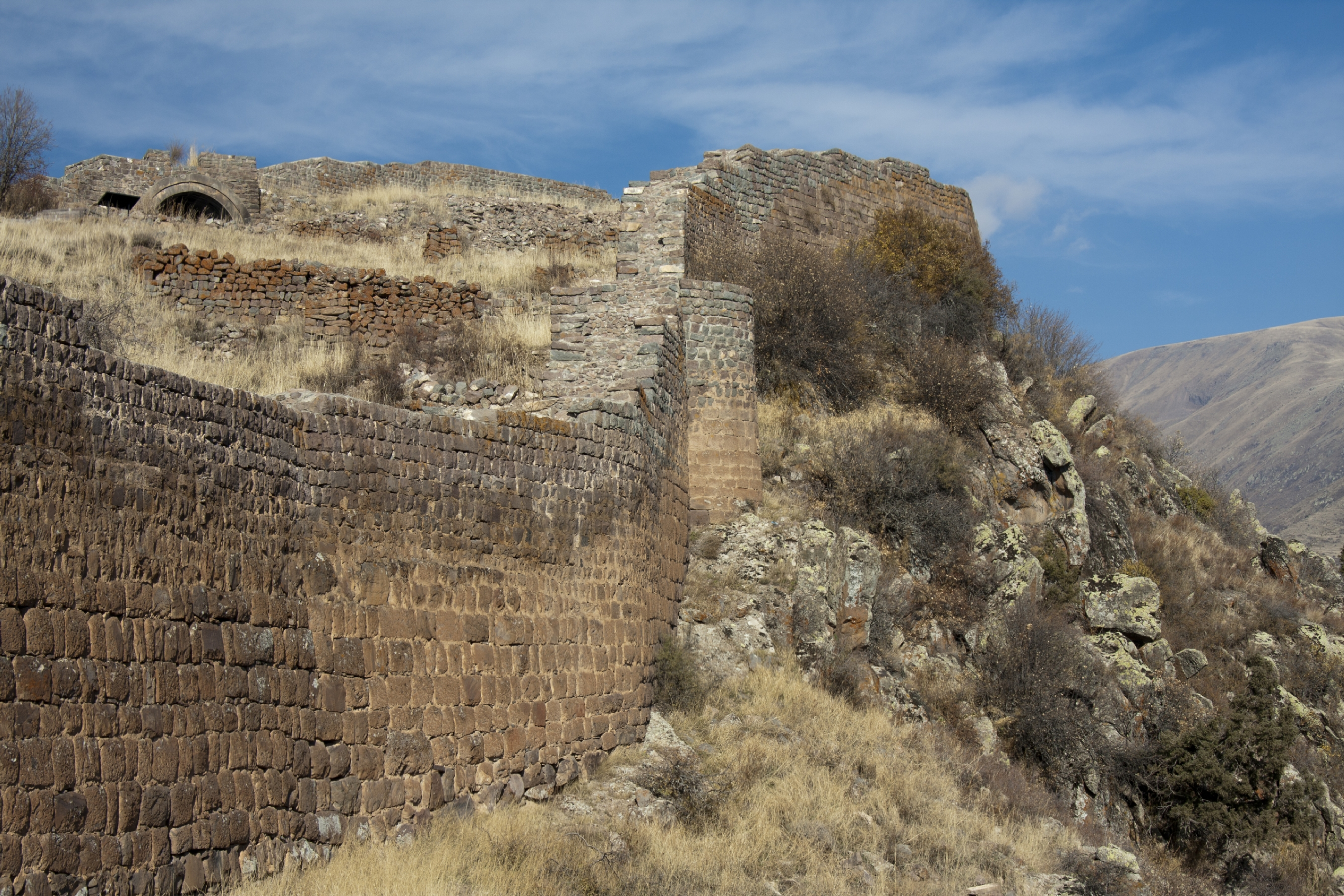 ԱՄՐՈՑ ՍՄԲԱՏԱԲԵՐԴ 10/1